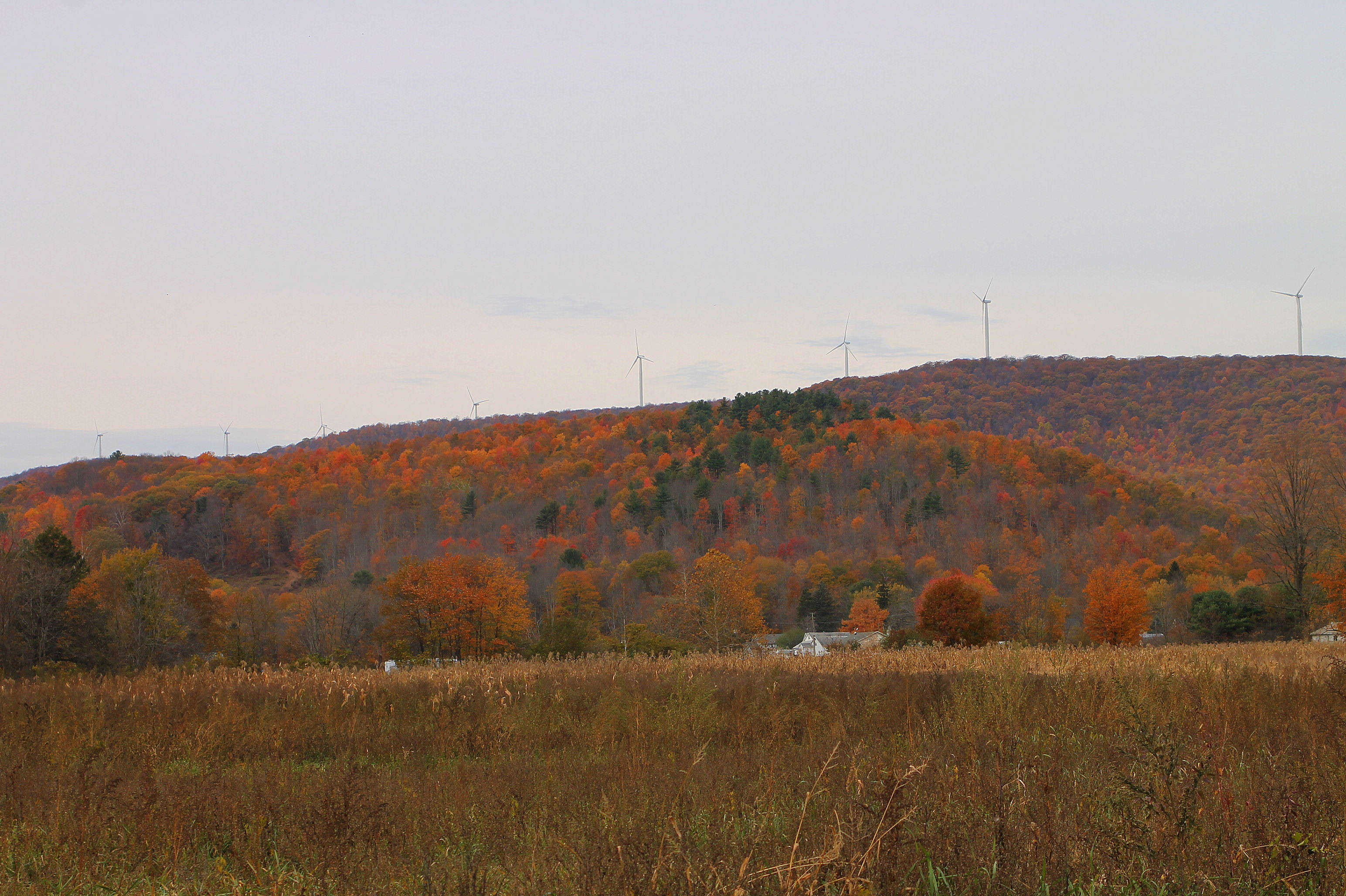 Field and mountain with wind turbines in Noxen, Pennsylvania, in Noxen Township, Wyoming County